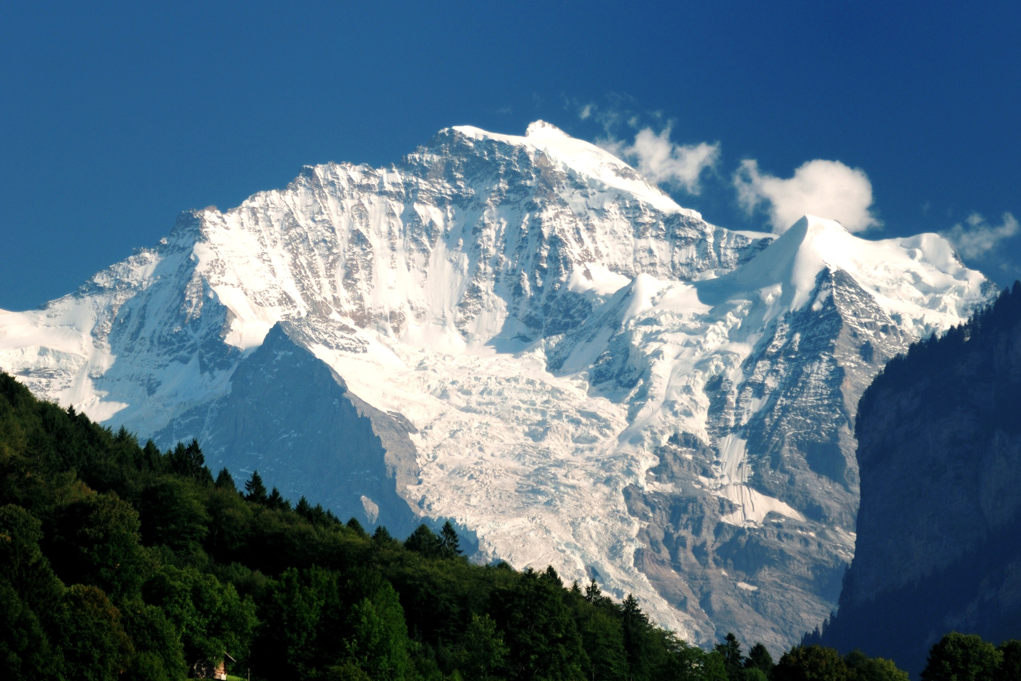 Jungfrau seen from near Interlaken